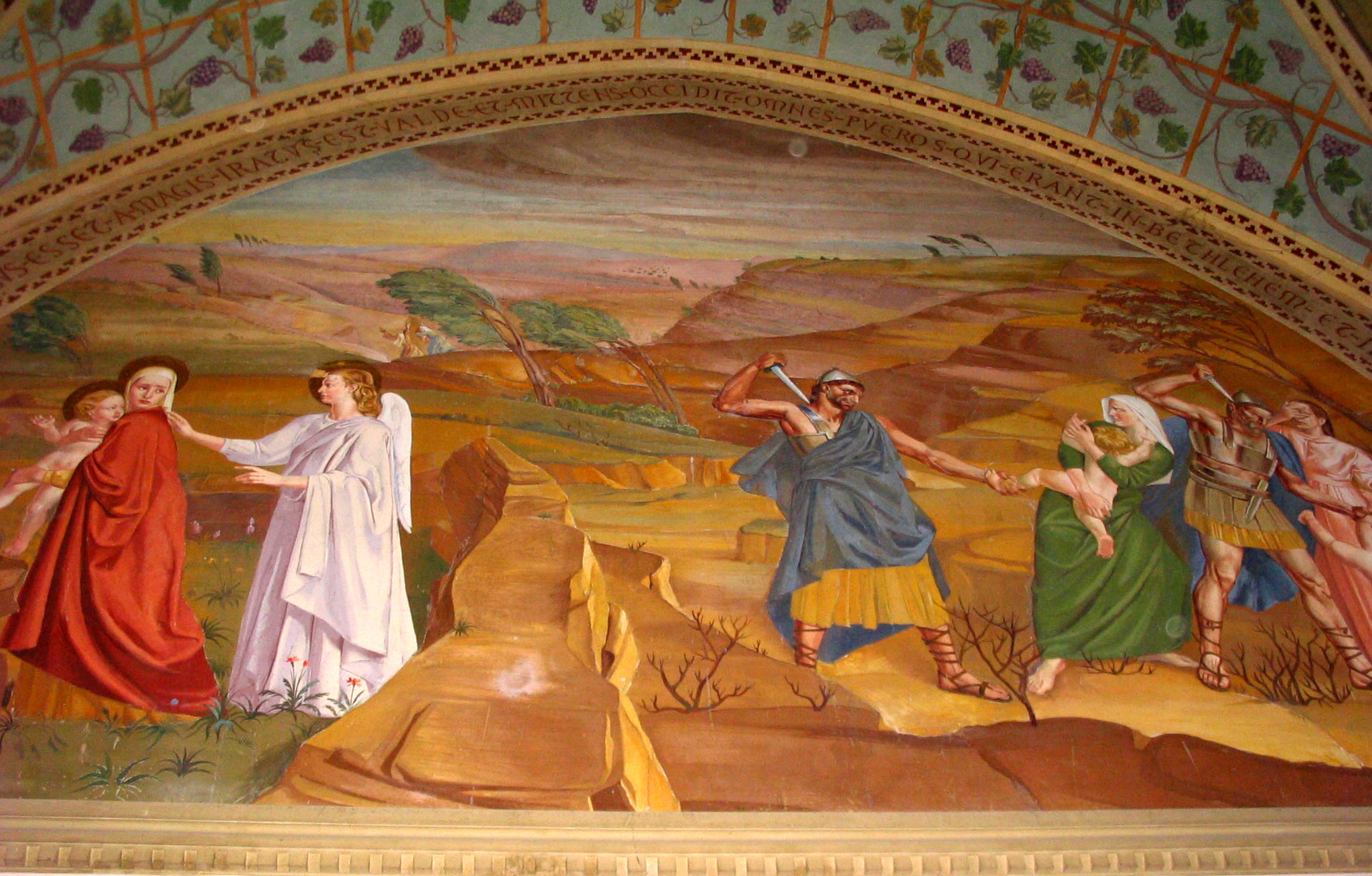 Ein Kerem, Church of Visitation